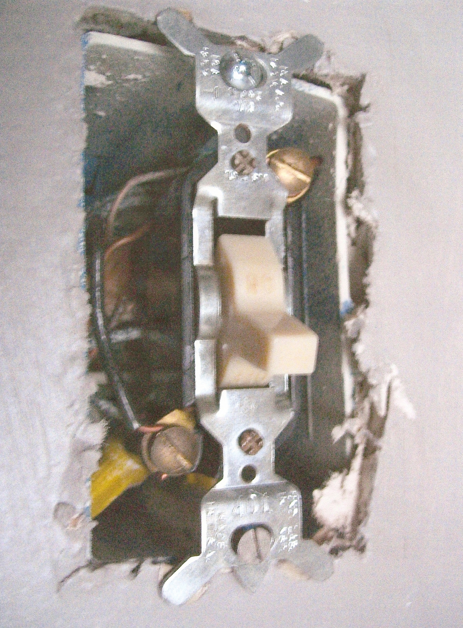 General Electric Mercury switch circa 1960